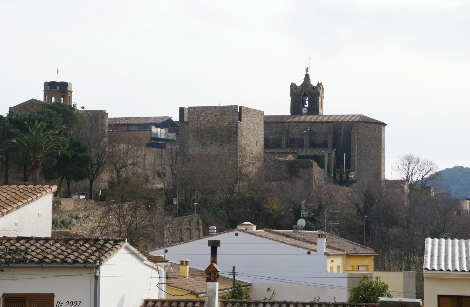 Panorama de la Vila de Calonge with castle and church